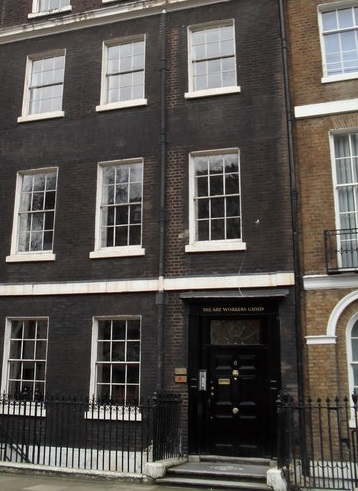 Exterior of The Art Workers Guild at 6 Queen Square, London